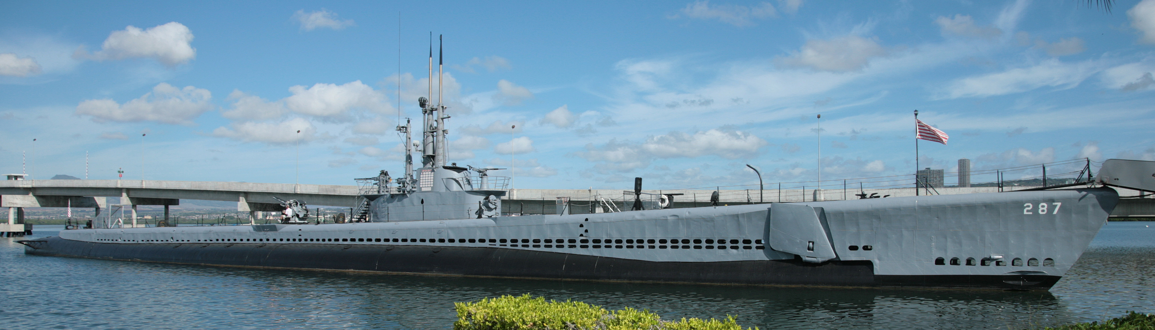 The Second World War era submarine USS Bowfin at Pearl Harbour